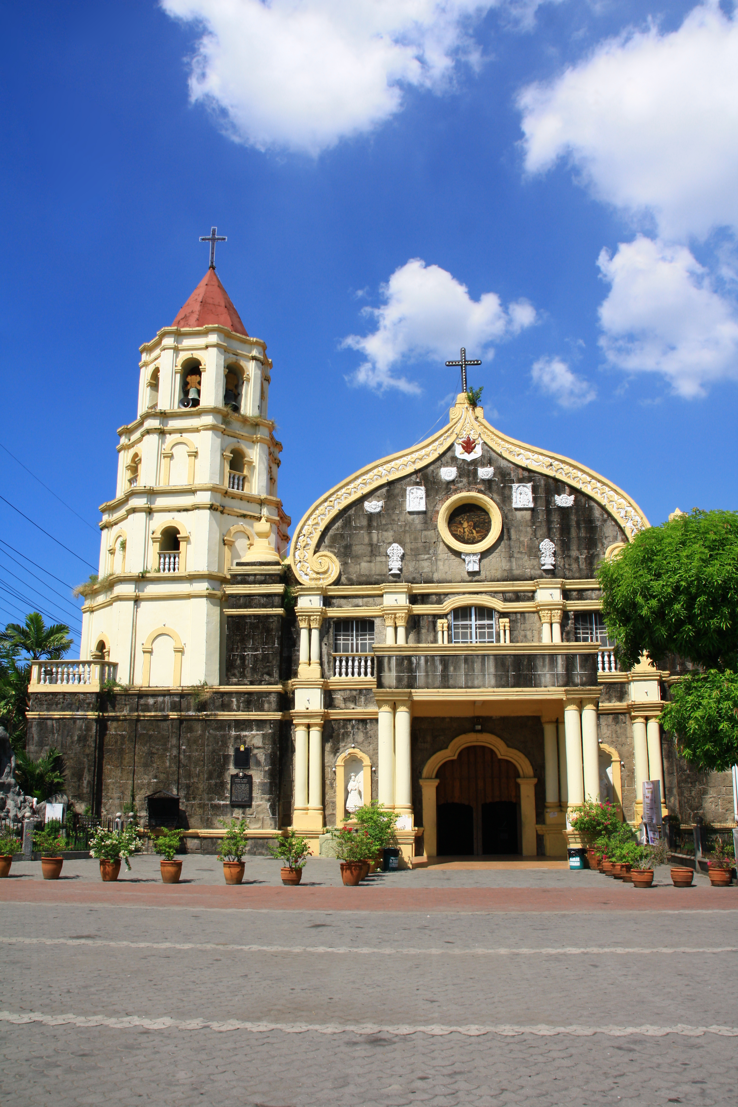 Santiago Apostol Church - Facade